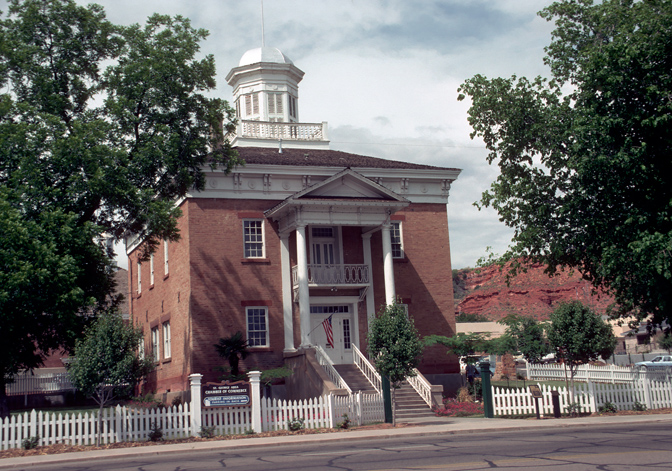 Front of the Old Washington County Courthouse, located at 85 E. 100 North in St. George, Utah, United States. Built in 1876, it is listed on the National Register of Historic Places.